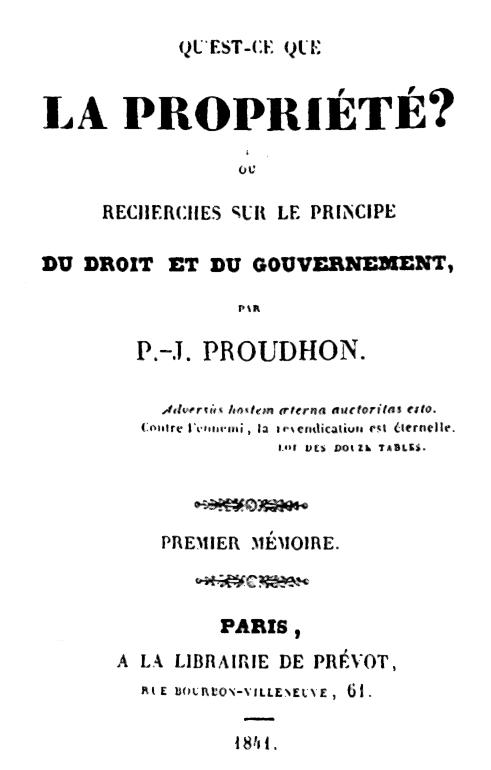 Title of «Qu’est-ce que le propriété?» by